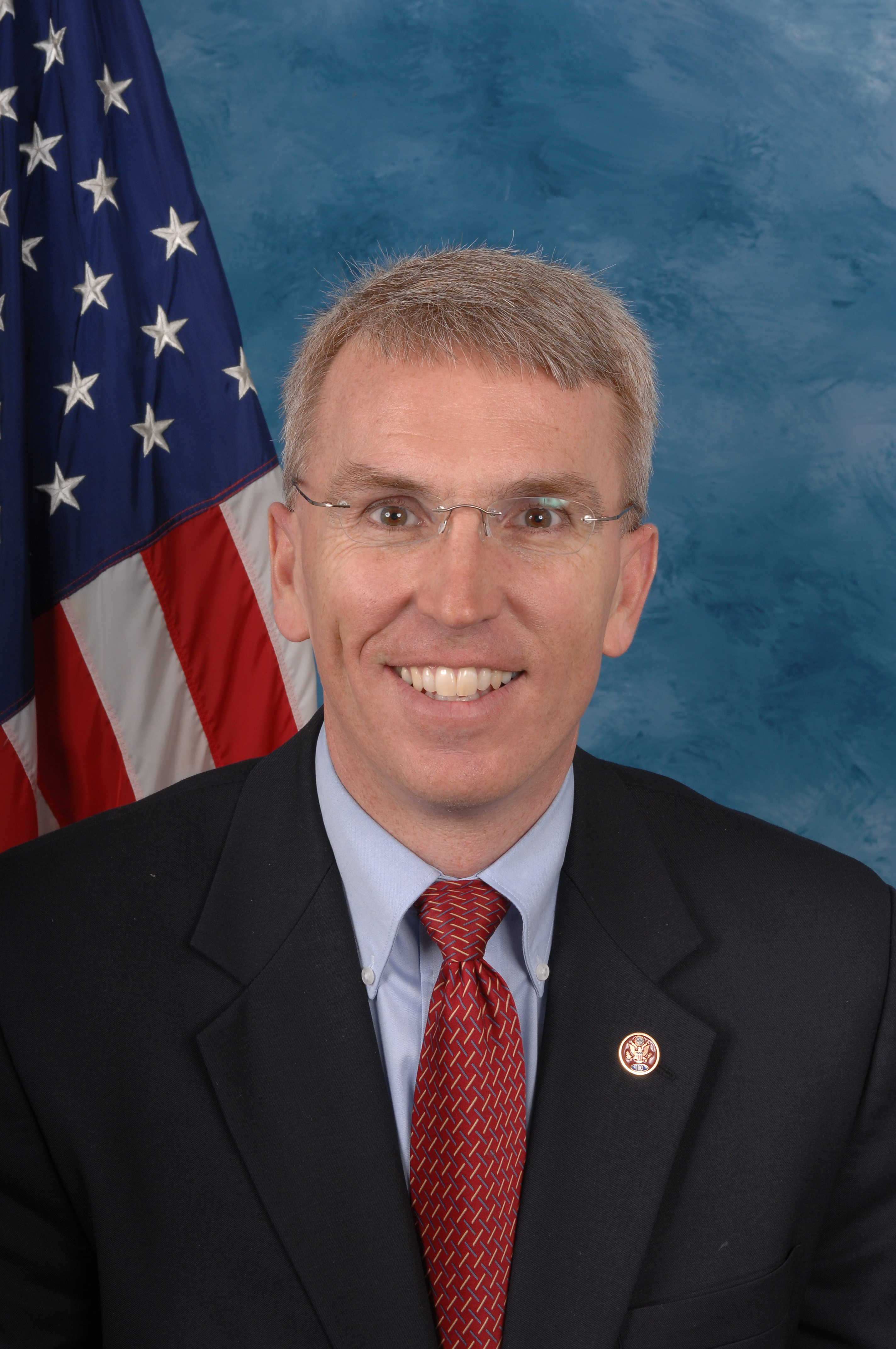 Todd Russell Platts, member of the United States House of Representatives.